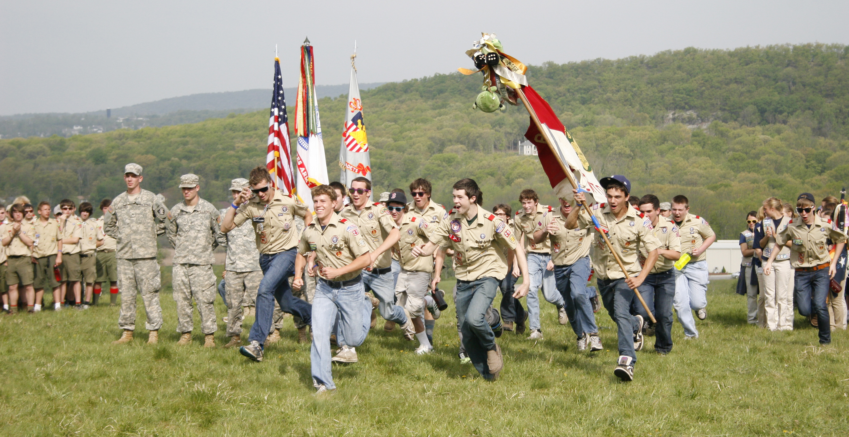 Scouts from Troop 29 out of Newtown, Pa., break from formation to receive the first place overall trophy at the 48th annual U.S. Military Academy Scoutmasters' Council Camporee April 30-May 2. Photo by Mike Strasser, Pointer View